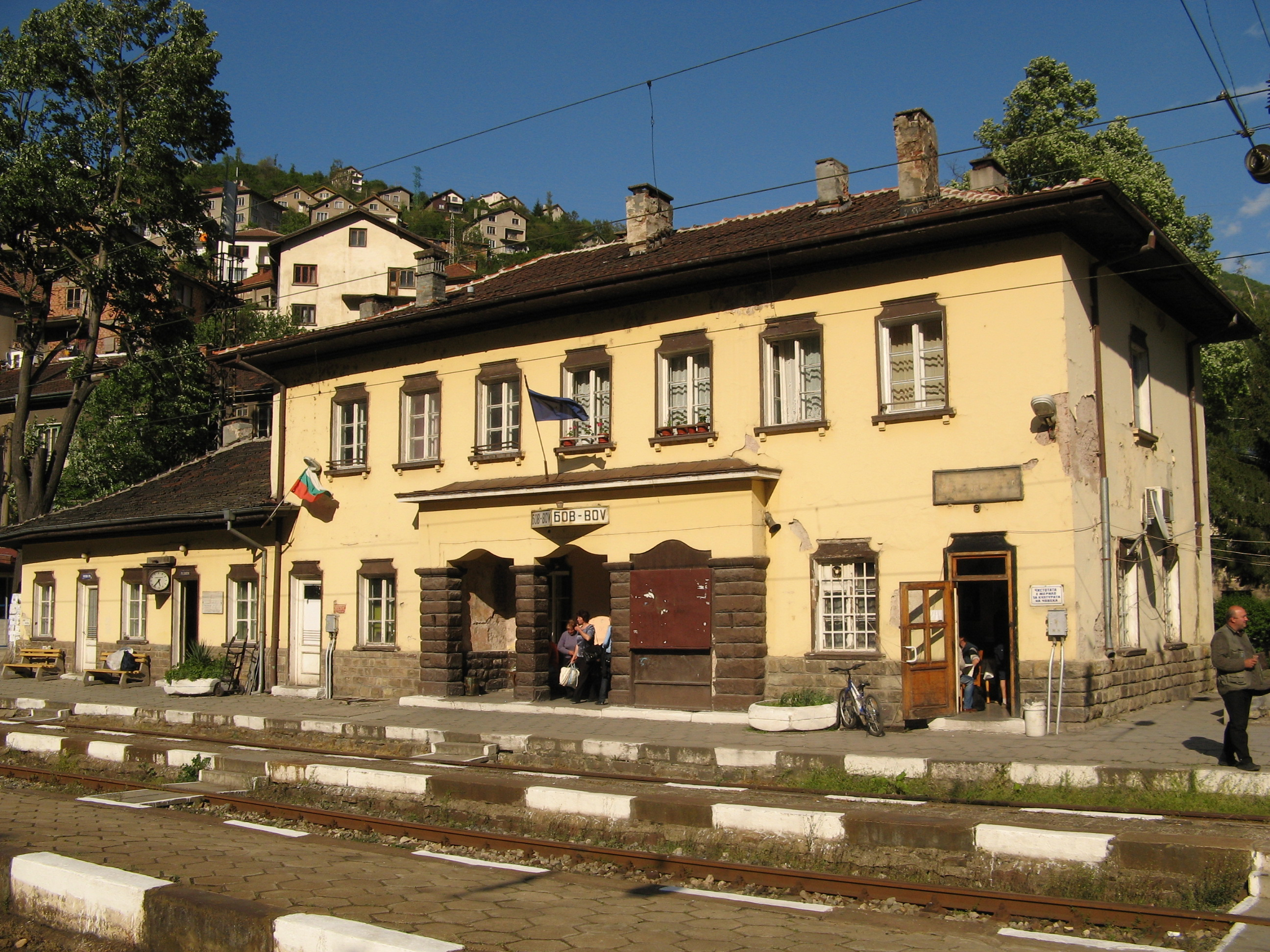 Gara Bov train station (Bulgaria)